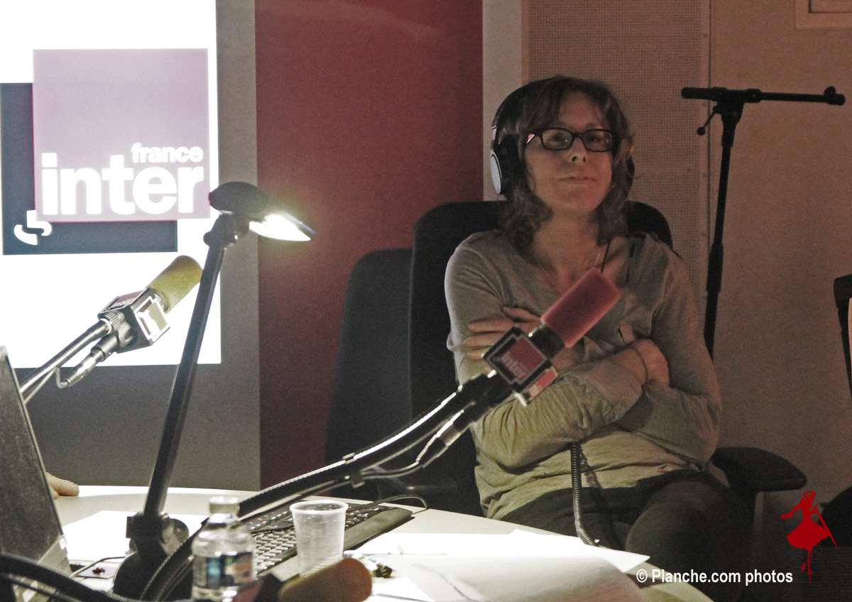 Pascale Clark during la Nuit Blanche on February 21, 2013 at France Inter.